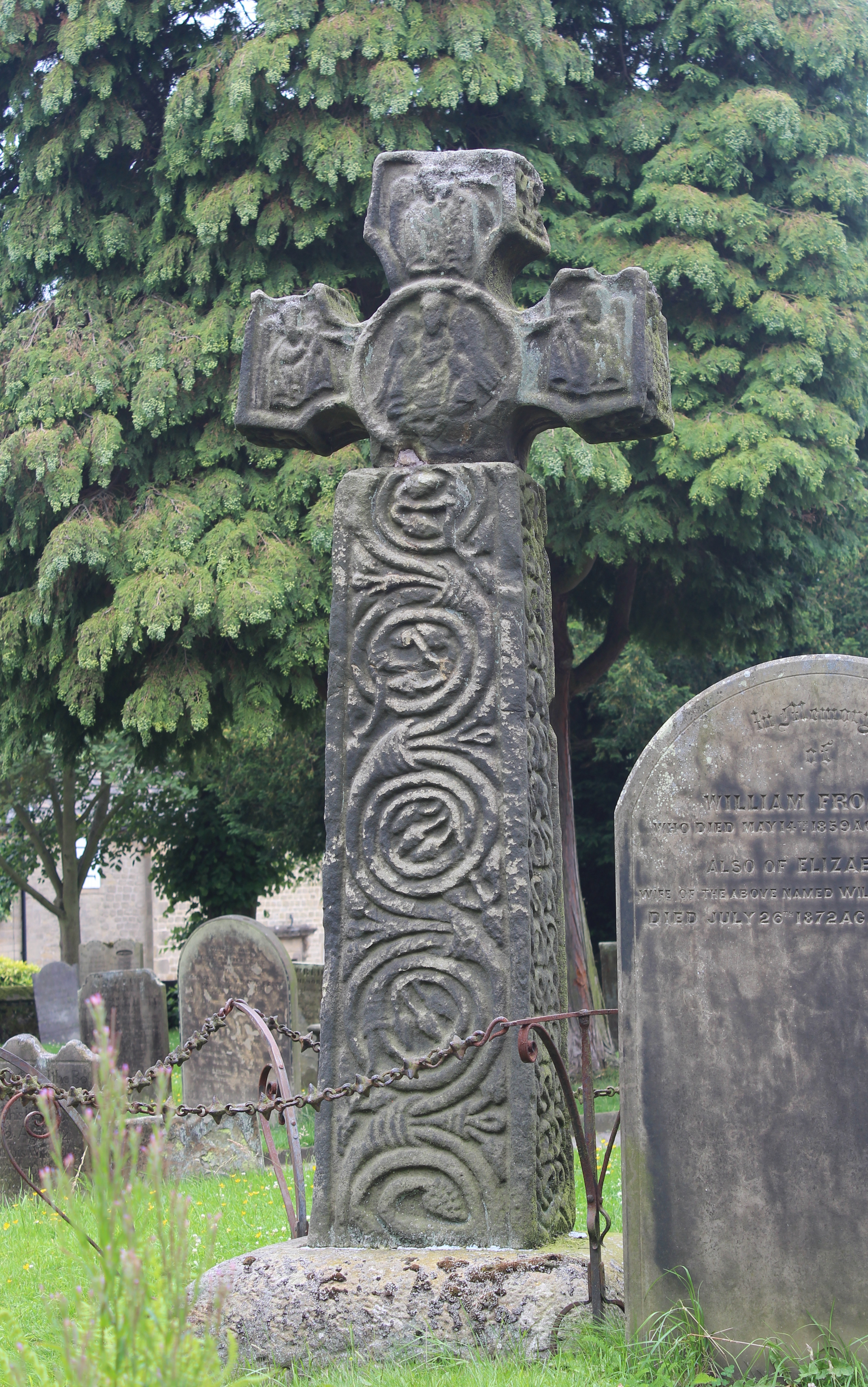 Eighth century Celtic or High Cross in the Eyam churchyard. The cross, which is probably of Mercian origin, is believed to have originally been set up at Cross Low, on the moors to the west of Eyam. In the eighteenth century it was discovered next to a trackway on the moors and brought to St Laurence's Church, Eyam. It is believed to be the only cross of its type in the English Midlands that has retained its crosshead. It is a Grade I listed monument.